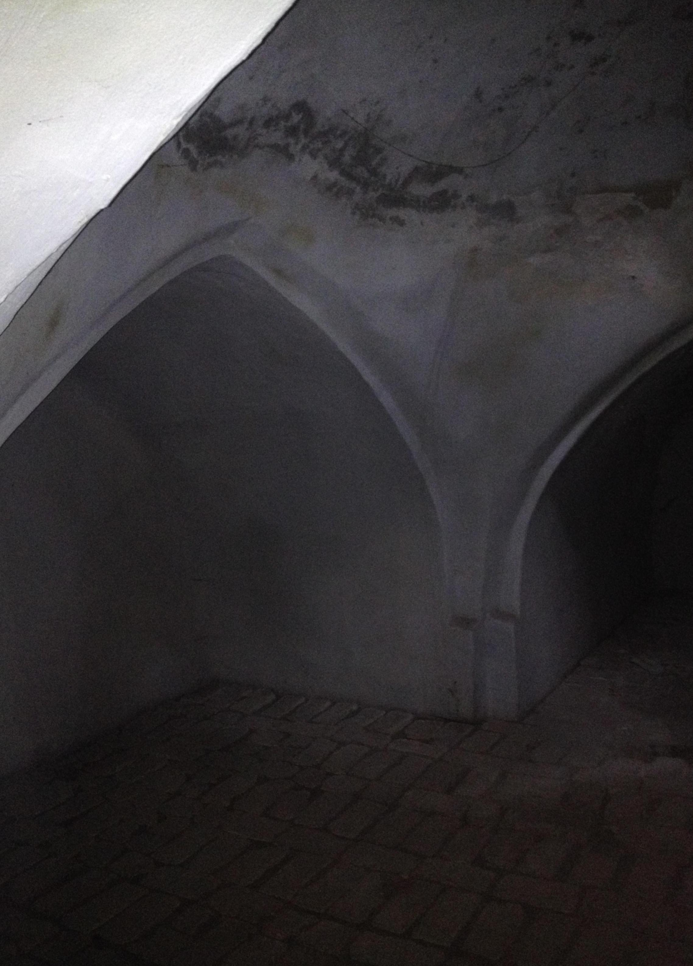 Interrior of chillakhona near Khoja Alambardor mausoleum